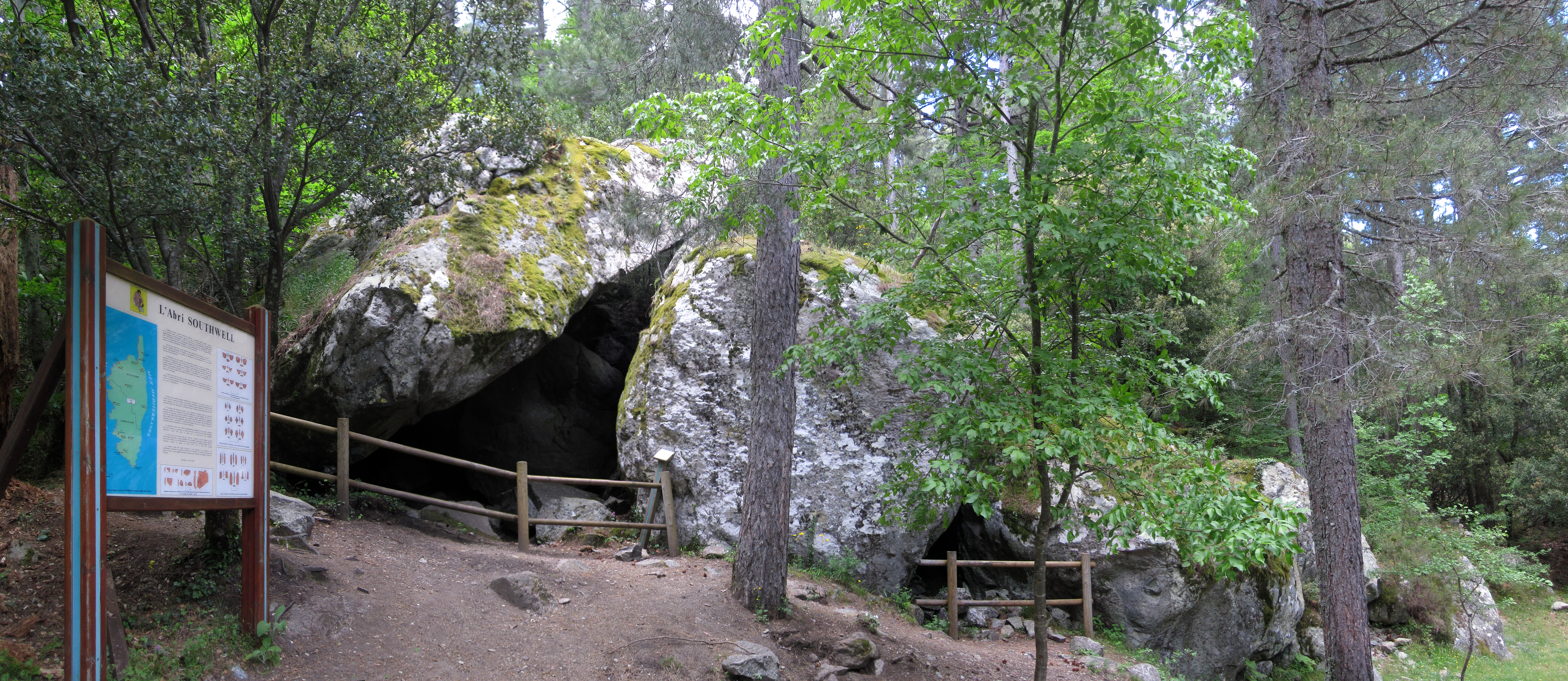 Picture of l'Abri Southwell in Vizzavona / Corsica / France